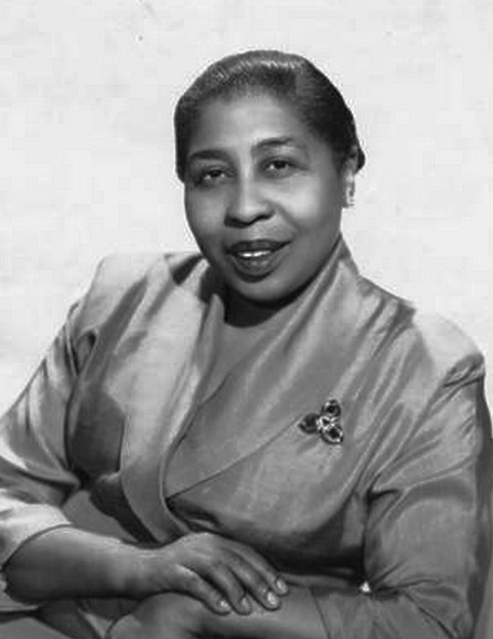 Publicity photo of Amanda Randolph as she began the title role of the radio program Beulah.